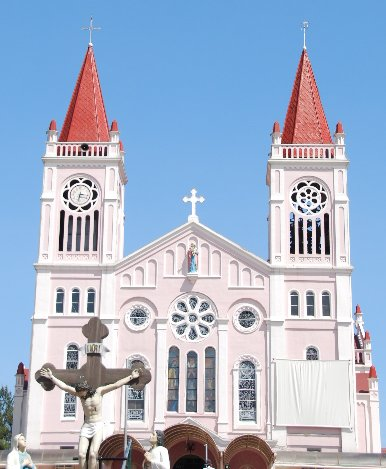 Our Lady of Atonement Cathedral, also known as Baguio Cathedral, a Catholic cathedral located at Cathedral Loop, adjacent to Session Road in Baguio City, Philippines.